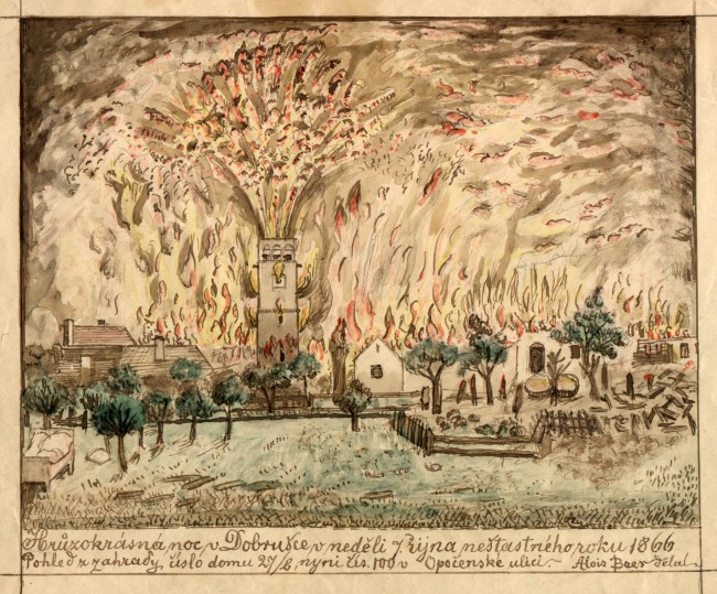 Dobruska fire on 7 October 1866